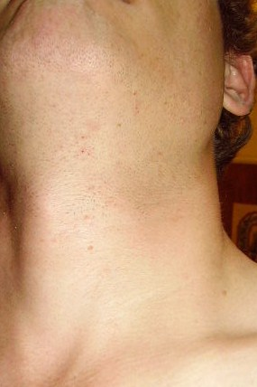 Image of Folliculitis barbae